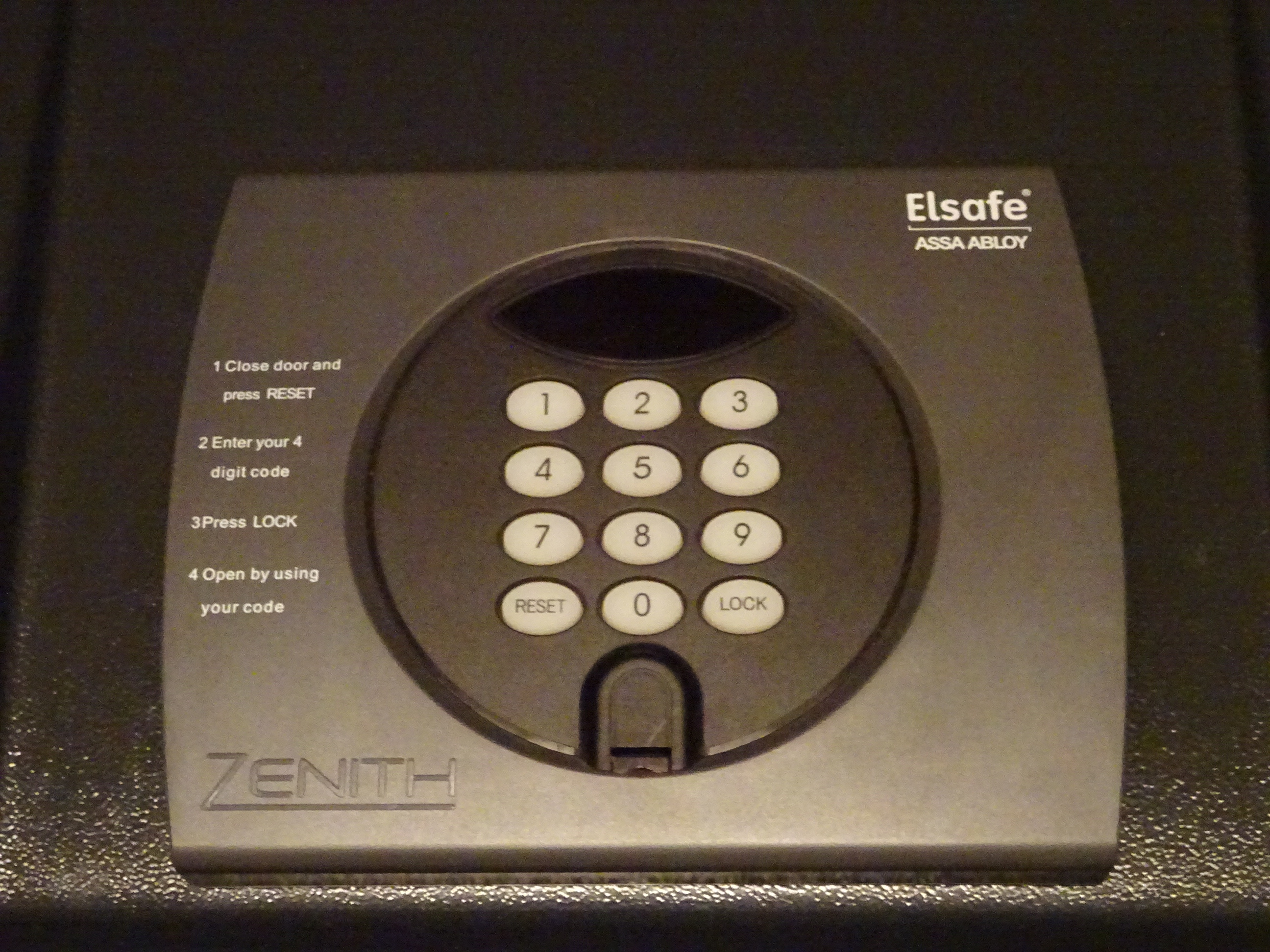 澳門JW萬豪酒店, JW Marriott Hotel Macau in October 2015